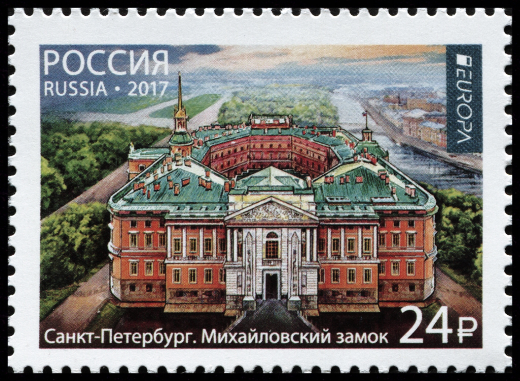 Postage stamp of Russia, 2017. Issue under the EUROPA program. Castles. Mikhailovsky castle.